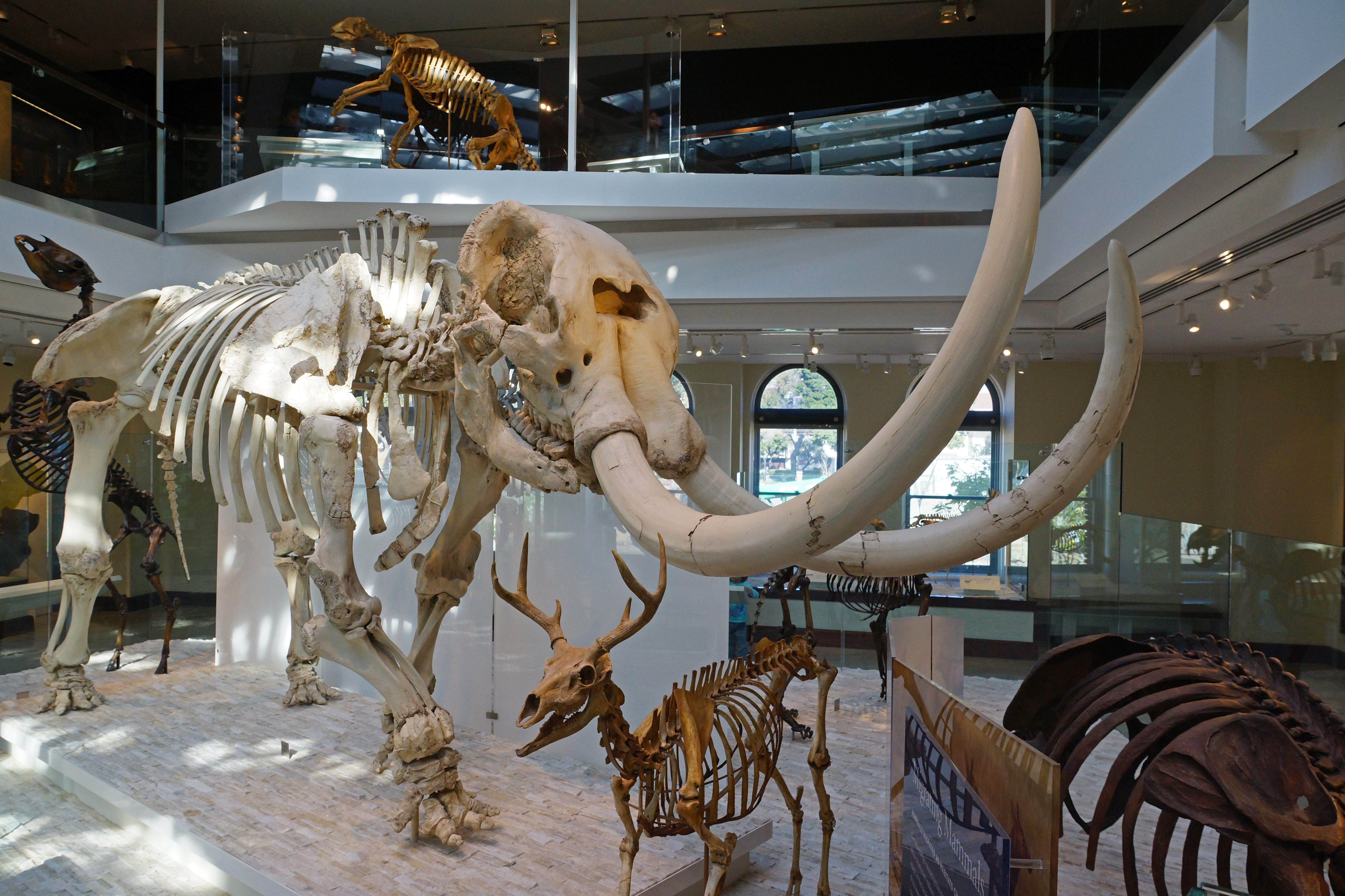 The "Simi Valley mastodon". 2011-12-23 01-01 Kalifornien 384 Los Angeles, Natural History Museum